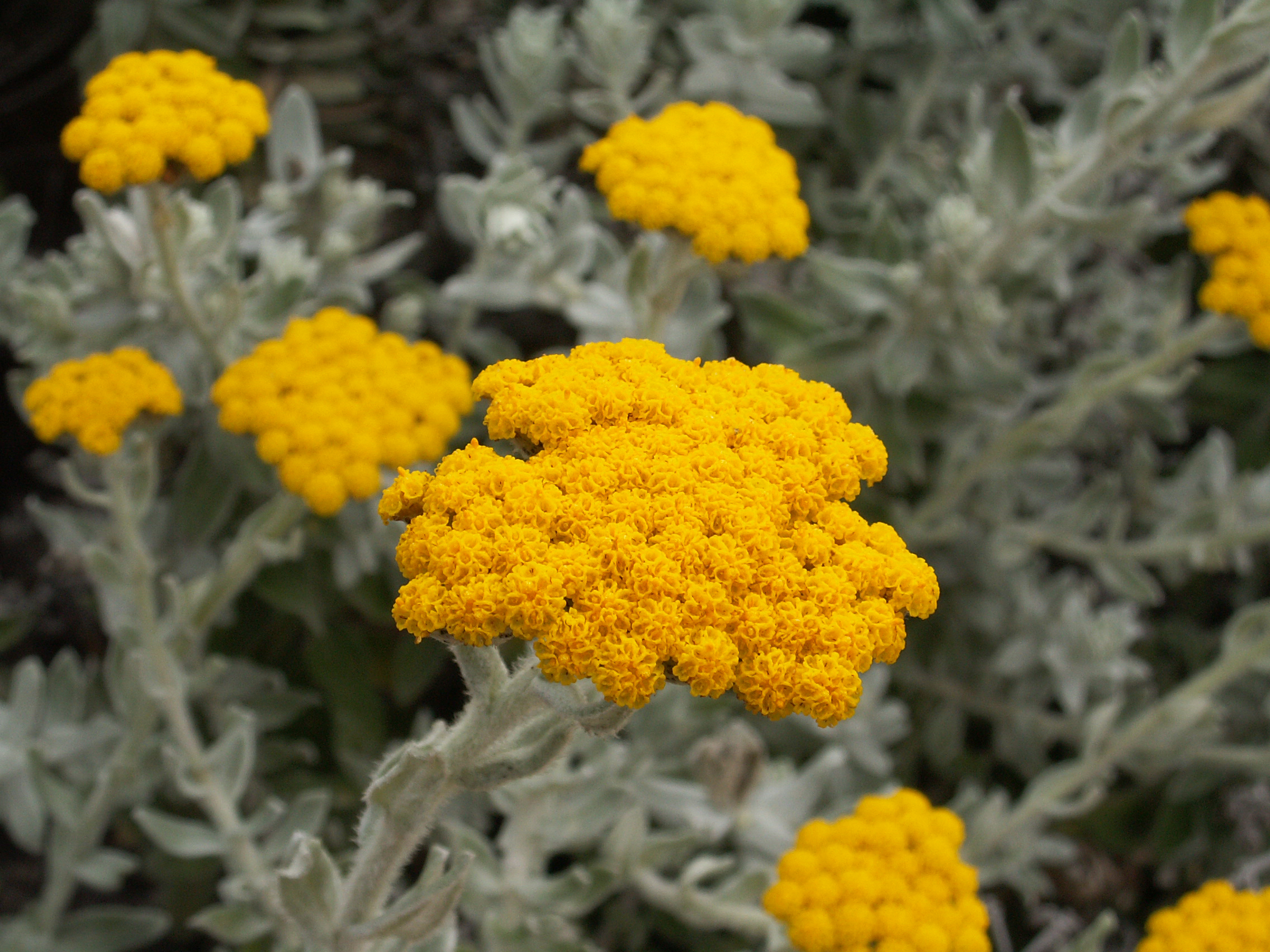 strawflower, Helichrysum moeserianum Thellung, De Hoop nature reserve, South Africa